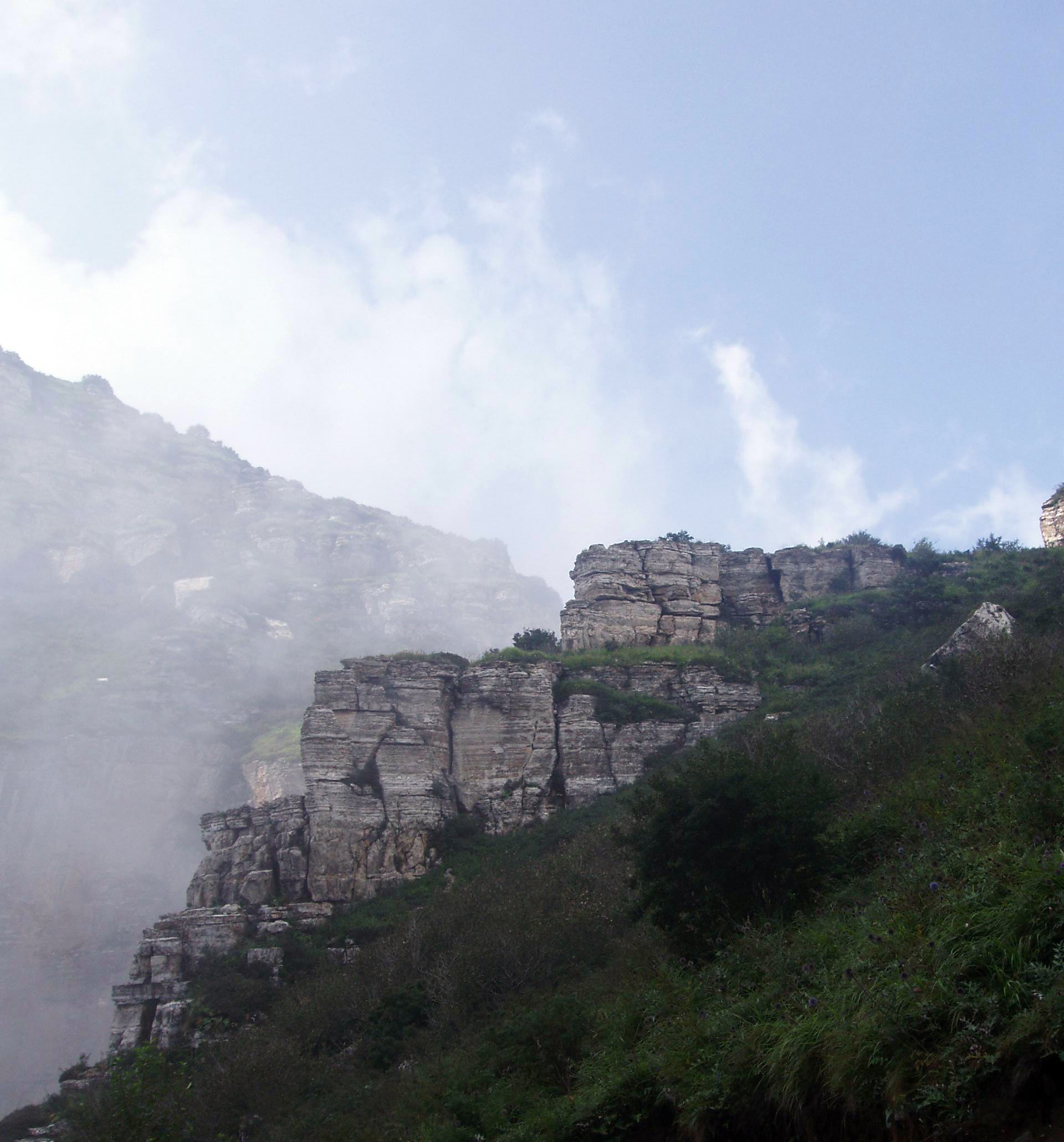 Taihang Shan Mountains in North China